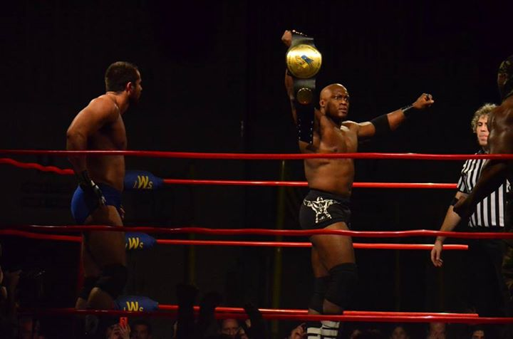 Bobby Lashley winning title Italy